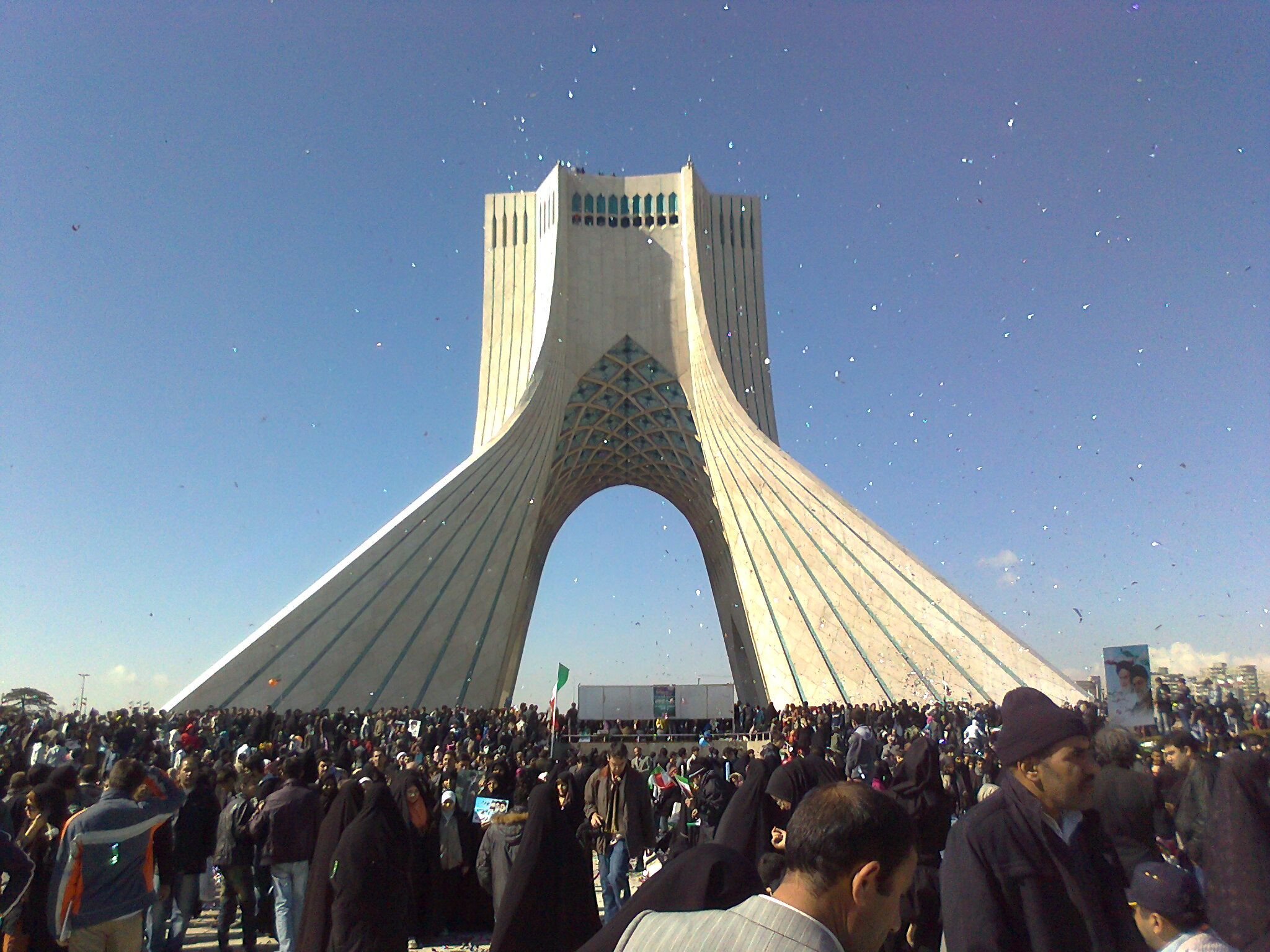 People attended the rally, 22 February 1390 at Azadi Square